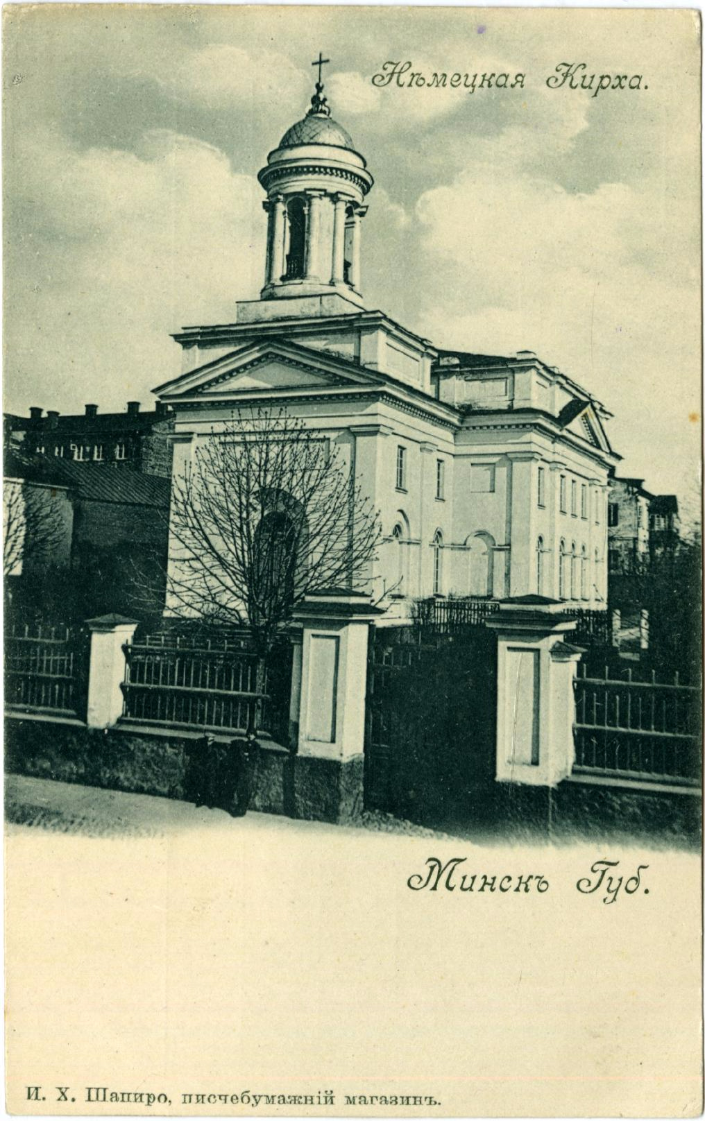 Lutheran Church in Miensk